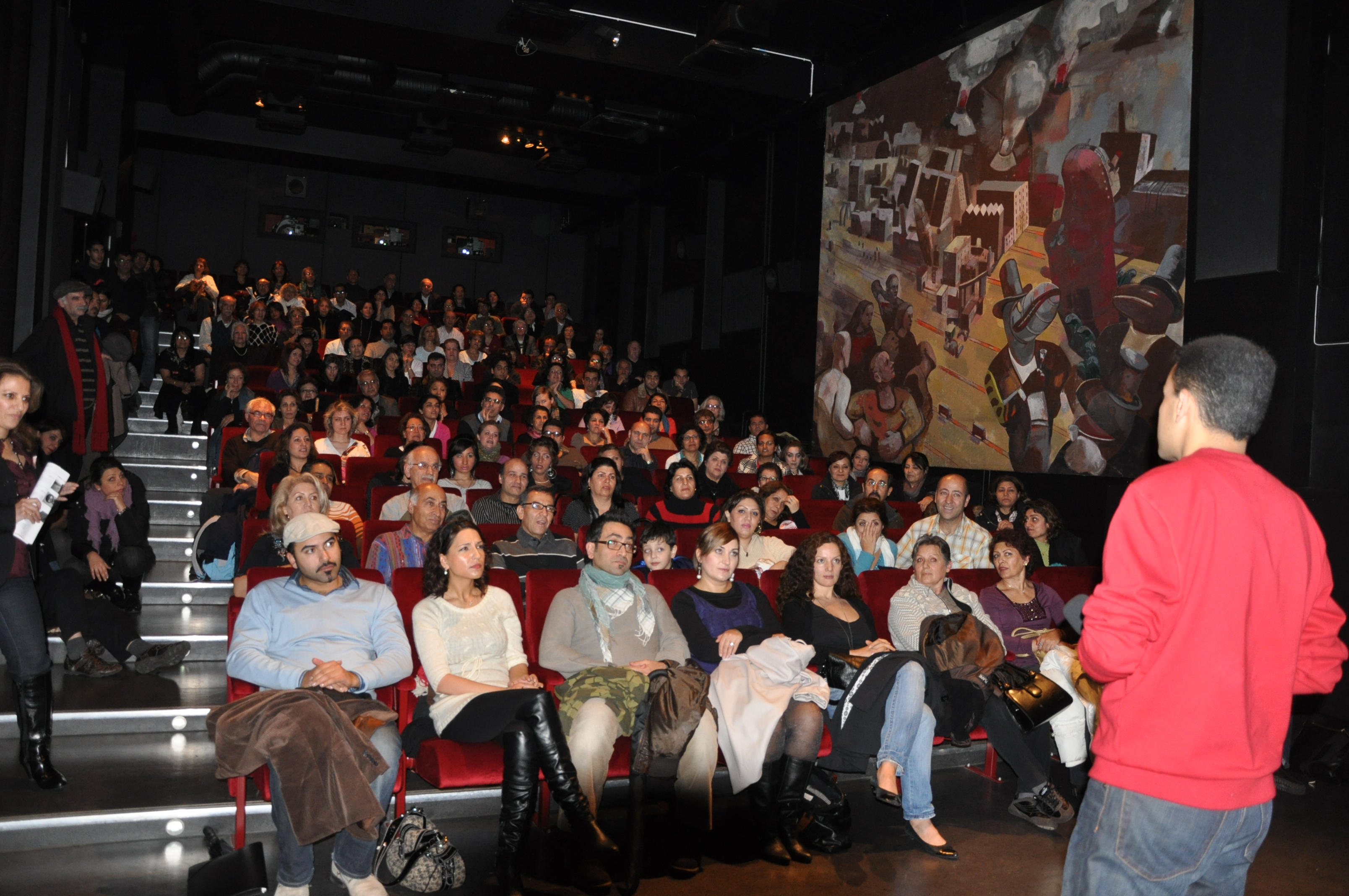 Pejman Akbarzadeh is talking with audience after Screening "Hayedeh, Legendary Persian Diva" documentary at 9th International Exile Film Festival in Gothenburg, Sweden, Oct. 2009.